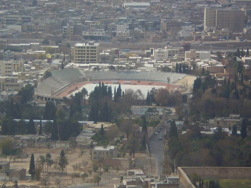 Hafezieh (Hafez) Stadium